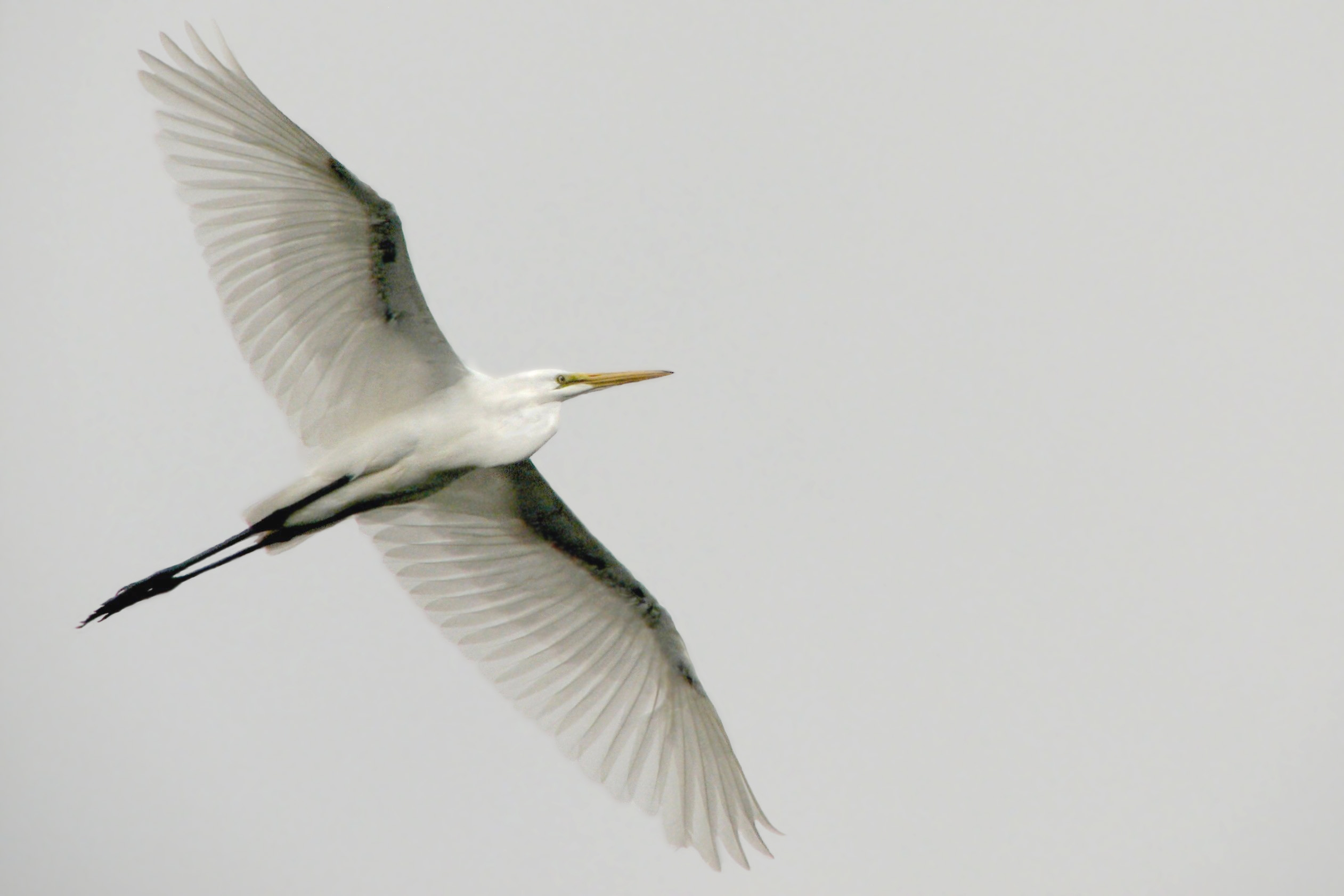 Great Egret Ardea alba, Aquatic Park, Berkeley, California